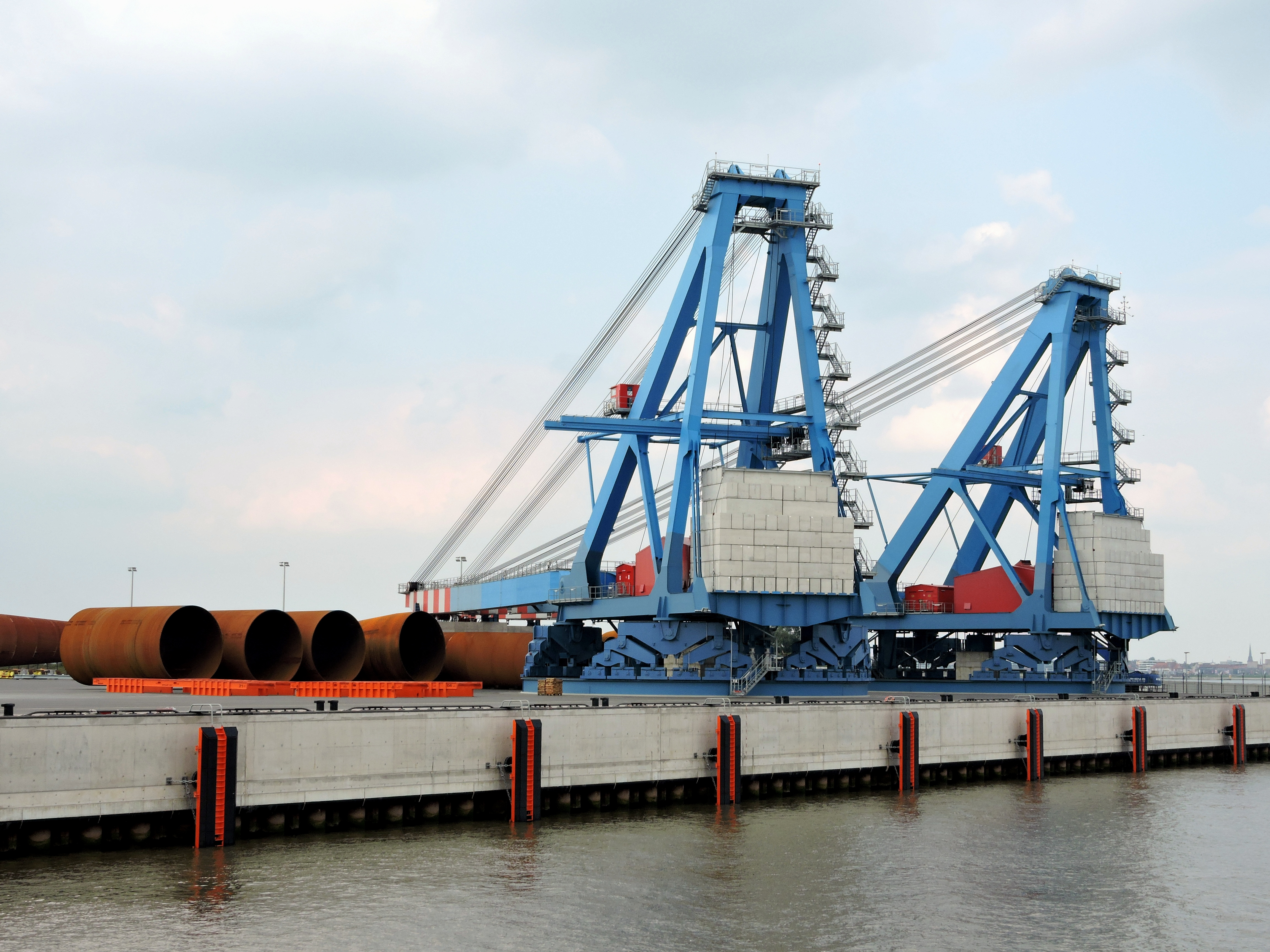 Two goliat cranes (Fa. Steelwind) in Nordenham